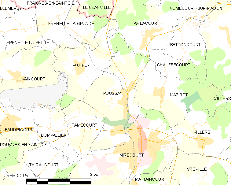 Map of French municipality Poussay